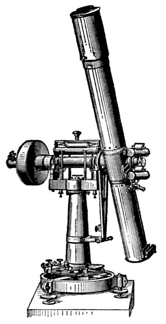 Zenith telescope constructed by Hermann Wanschaff, Berlin